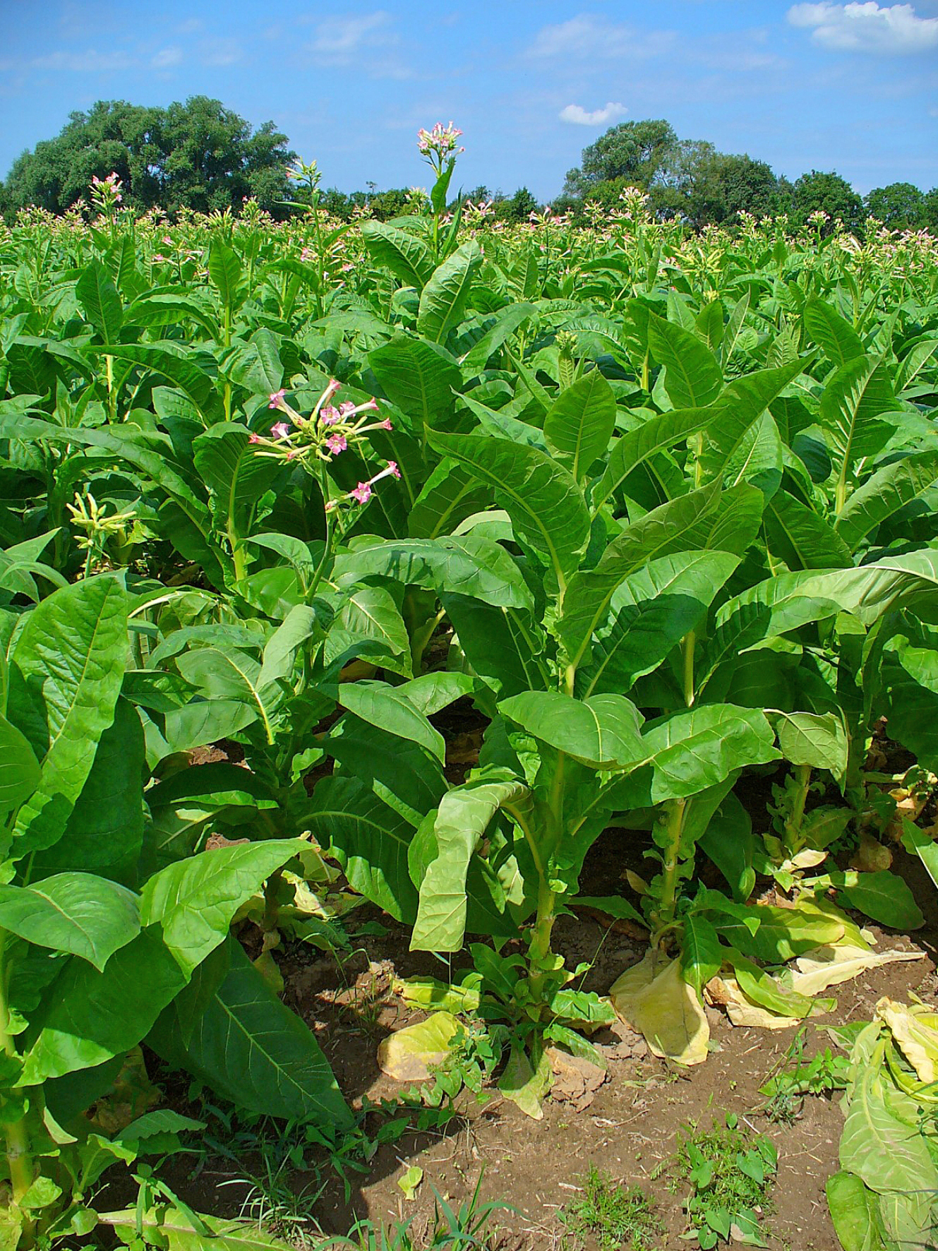 Nicotiana tabacum, Solanaceae, Common Tobacco, habitus. Stutensee, Germany.